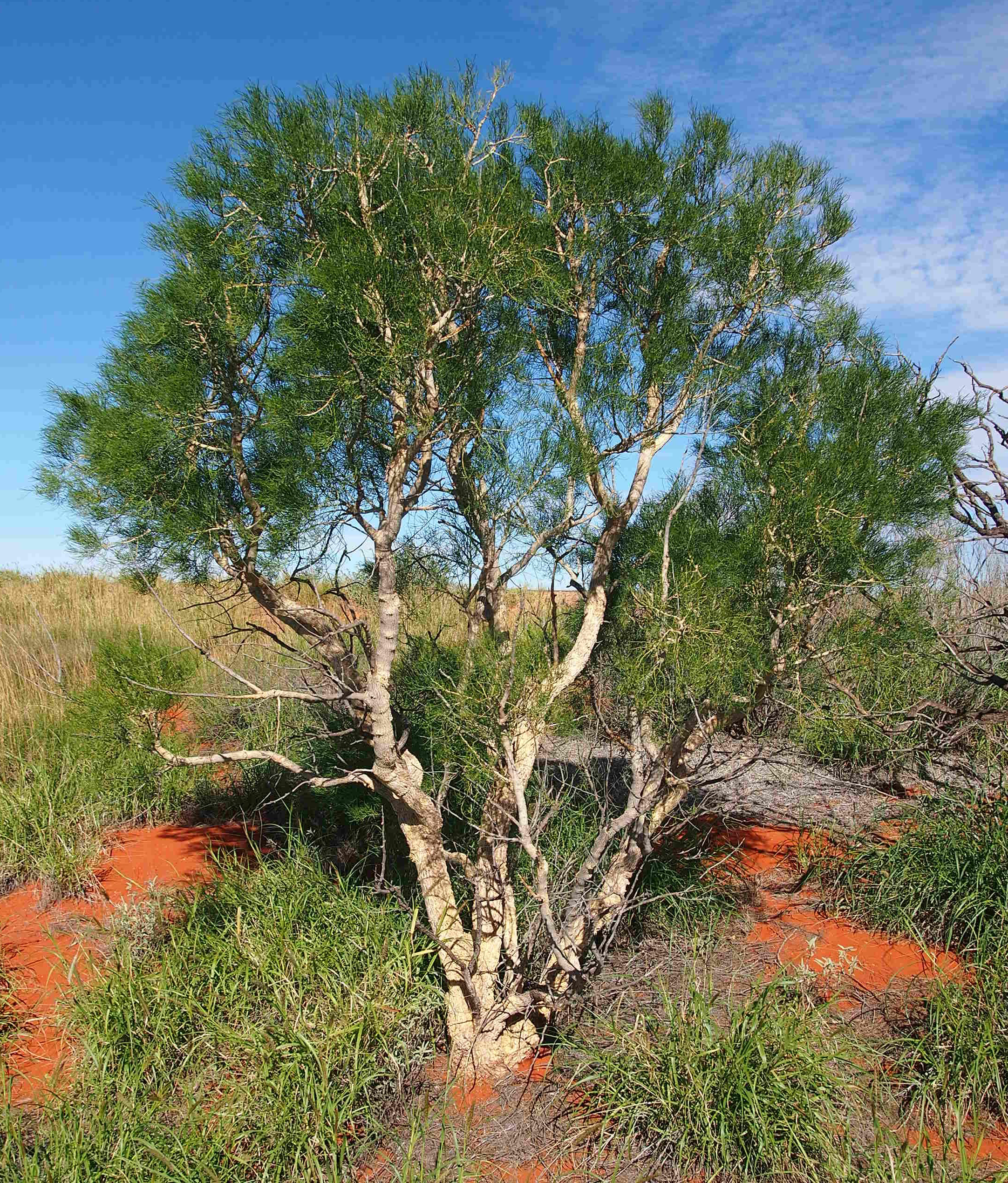 Gyrostemon ramulosis habit